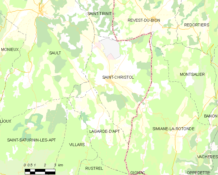 Map of French municipality Saint-Christol